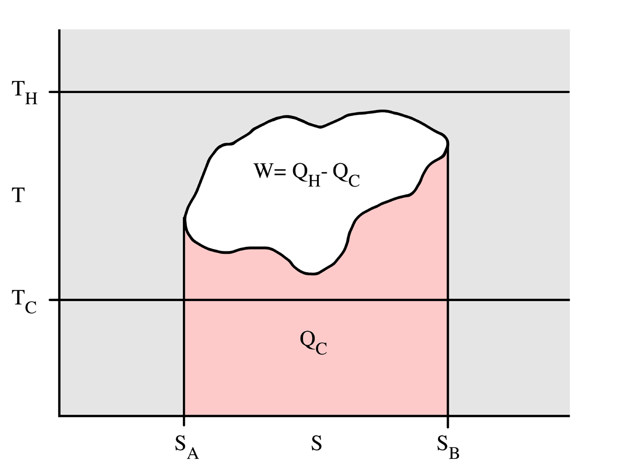 Modified version, with Δ removed from W and Q. Modified version, with Δ removed from W and Q.